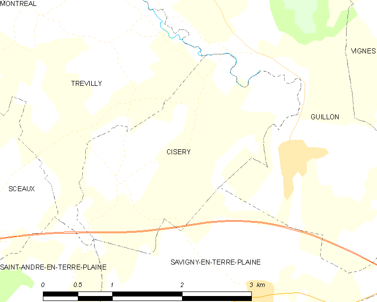 Map of French municipality Cisery